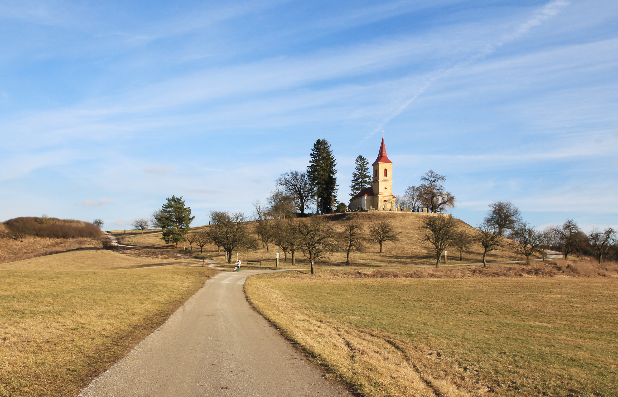 Byšičky, Church of Saints Peter and Paul with Calvary, Czech Republic